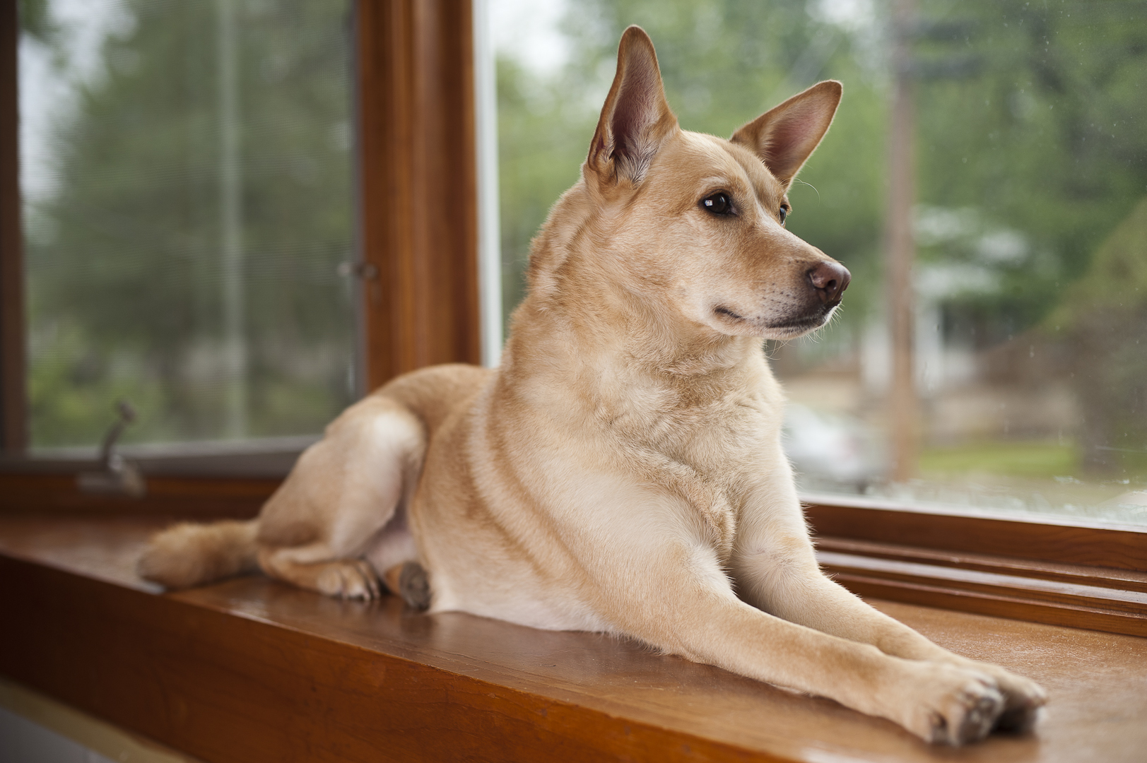 Sheila, a Carolina Dog a.k.a. American Dingo a.k.a. Dixie Dingo